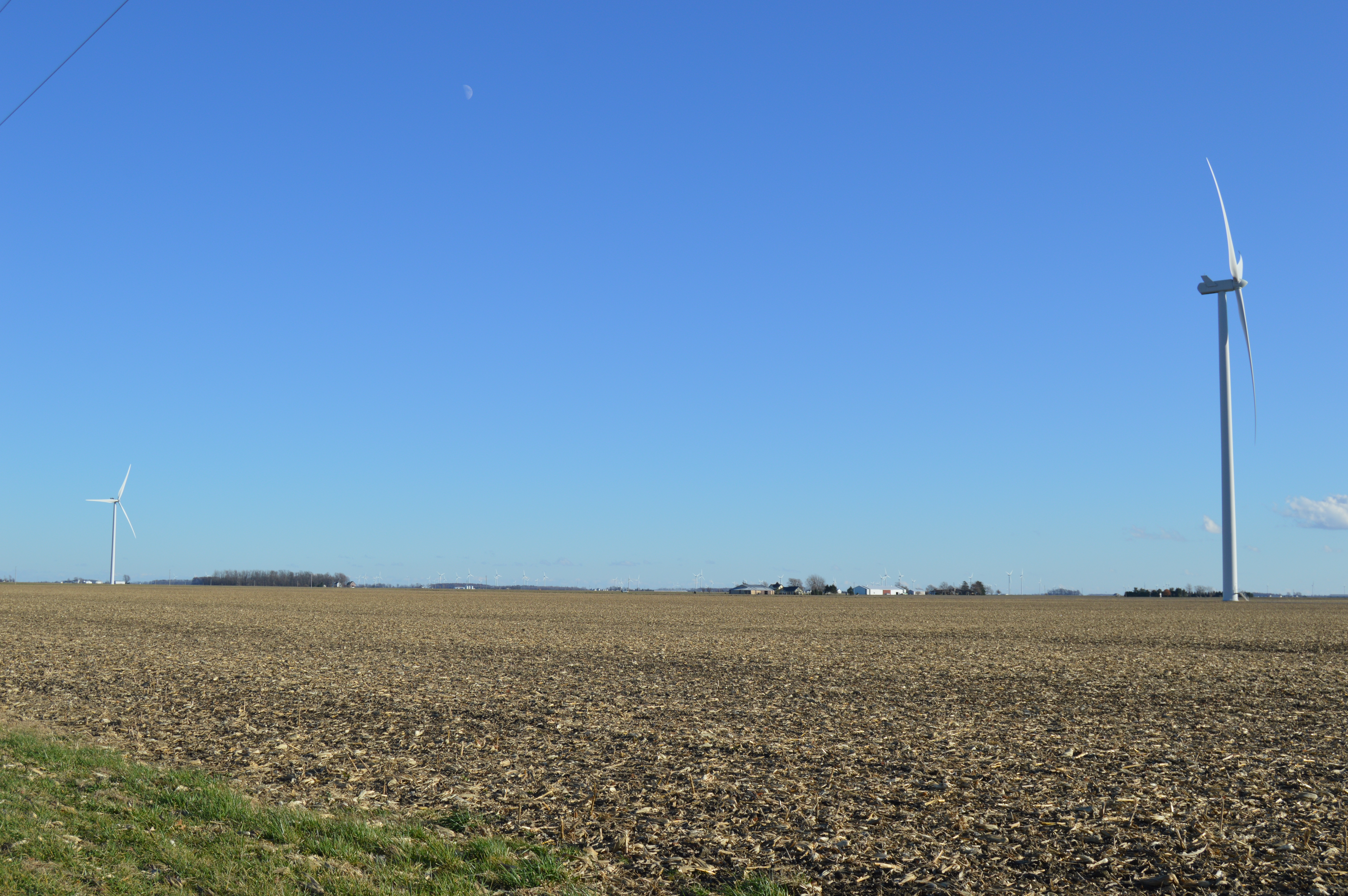 Looking southeast from the junction of State Route 49 and Road 72 south of Payne in Benton Township, Paulding County, Ohio, United States.